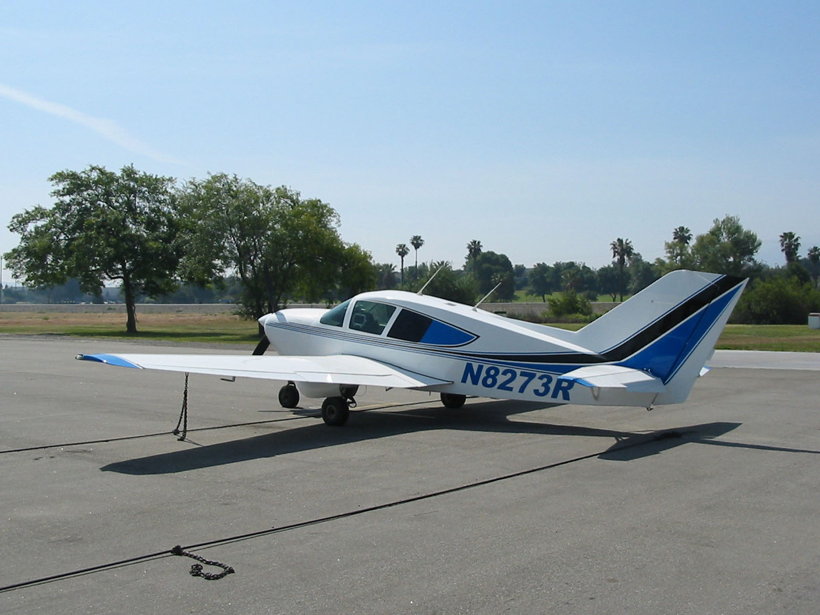 Bellanca 17-30A Super Viking, parked at Corona Municipal Airport (AJO). Photo by Craig Kinzer.